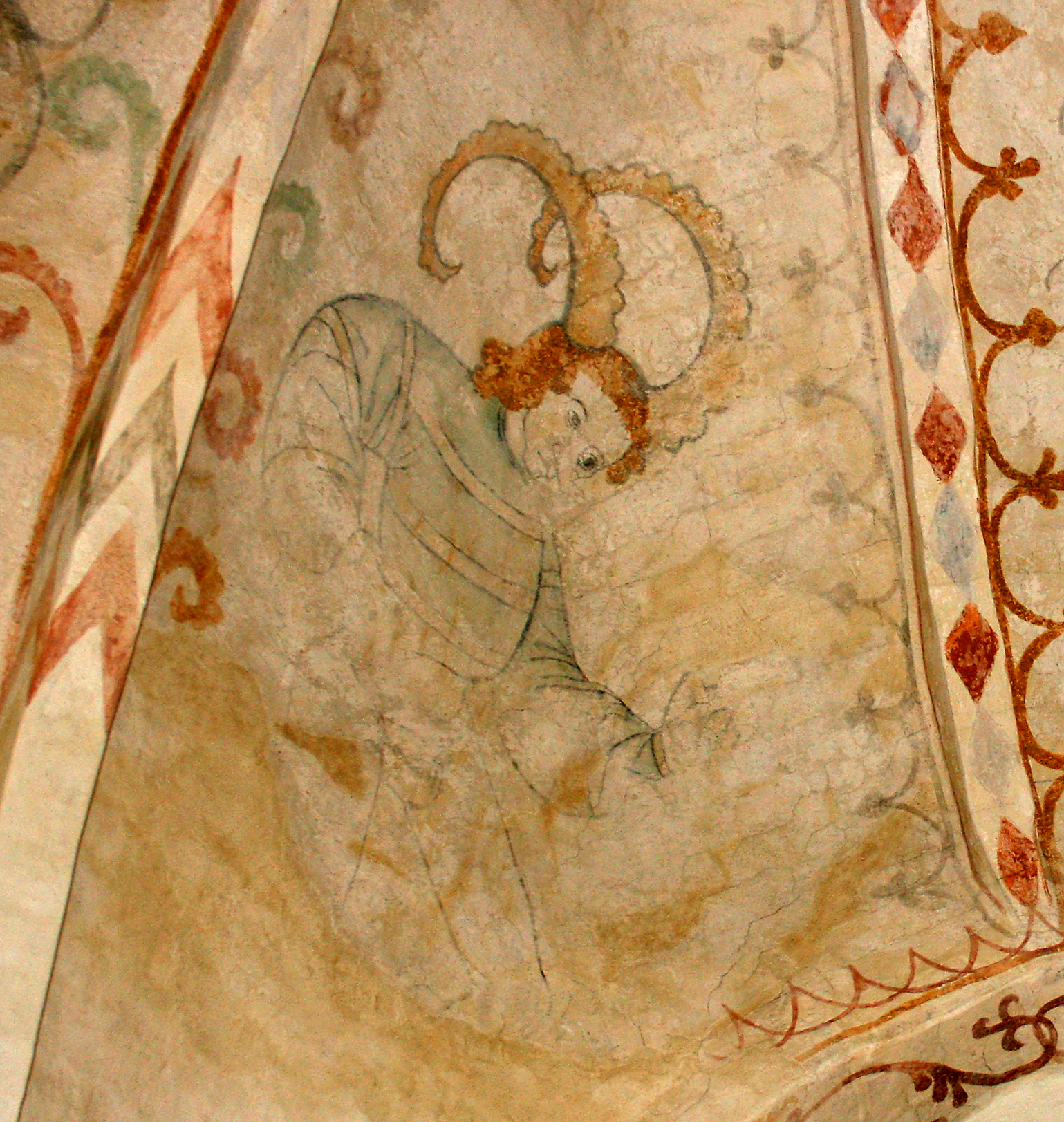 Dalbyneder Church, the western arch in the naive with a gothic fresco from 1511 of a man with buck horns, which symbolizes laziness, one of the seven katholic mortal sins. Dalbyneder Sogn, Gjerlev Herred, Randers Amt, Denmark.